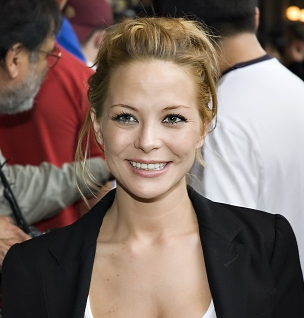 Actress Jordan Ladd at the premiere of Grindhouse, Austin, Texas.